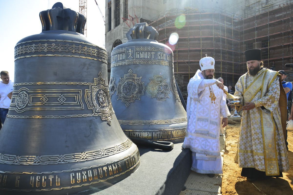 Installation of bells in the belfry of The Main Temple of the Russian Armed Forces in Moscow.